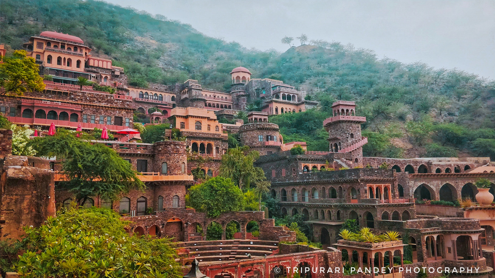 Neemrana is an ancient historical town in Alwar district of Rajasthan, India, situated at 122 km from Delhi and 150 km from Jaipur on the Delhi-Jaipur highway in Neemrana tehsil. It is situated in between Behror and Shahajahanpur.